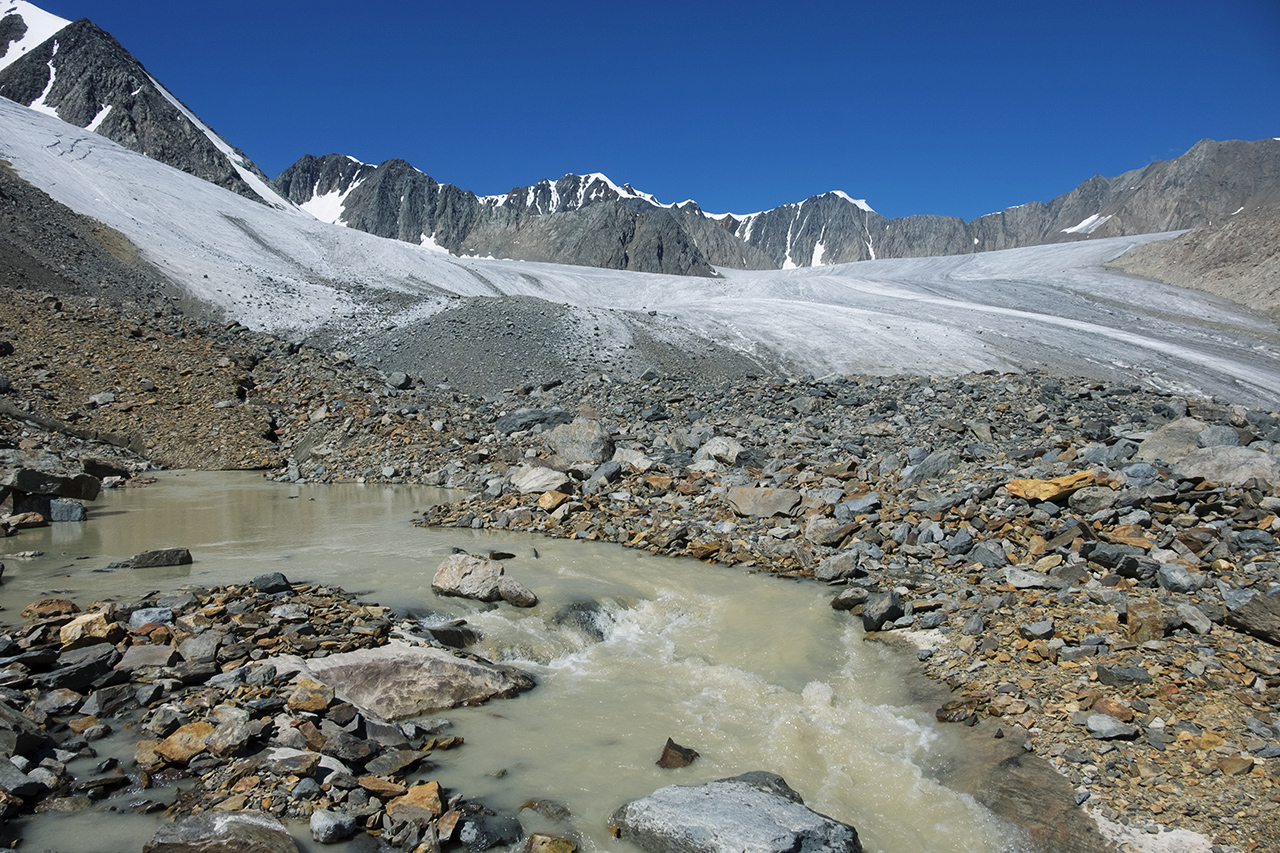 The source of the Jhelum River